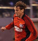 Dmitri Bulykin, Russian footballer.